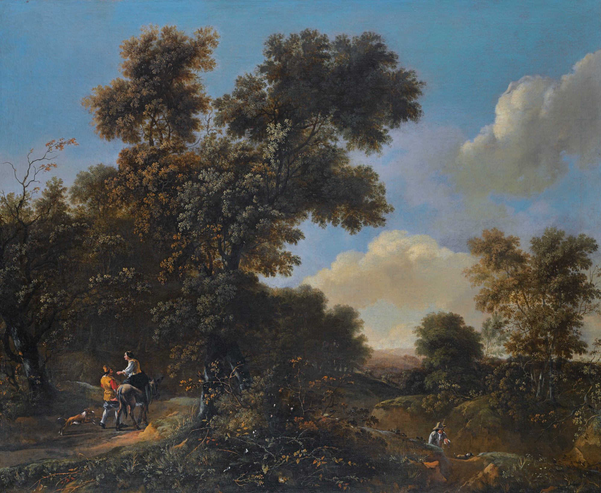 A wooded landscape with travellers on a sandy path oil on canvas 83.5 x 101.5 cm signed b.l.: AV